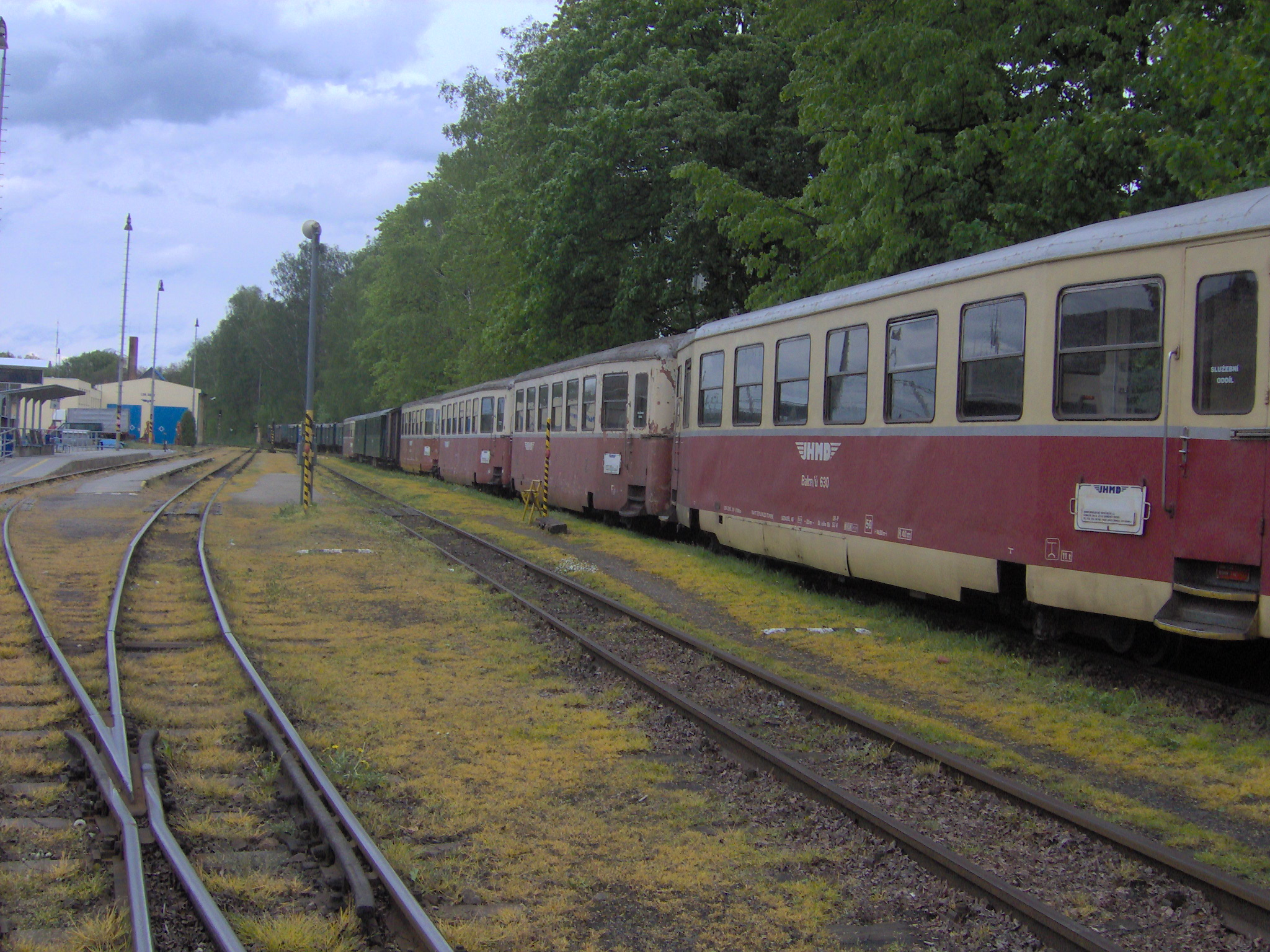 Narrow gauge railway in Jindřichův Hradec, South Bohemian Region, Czech Republic